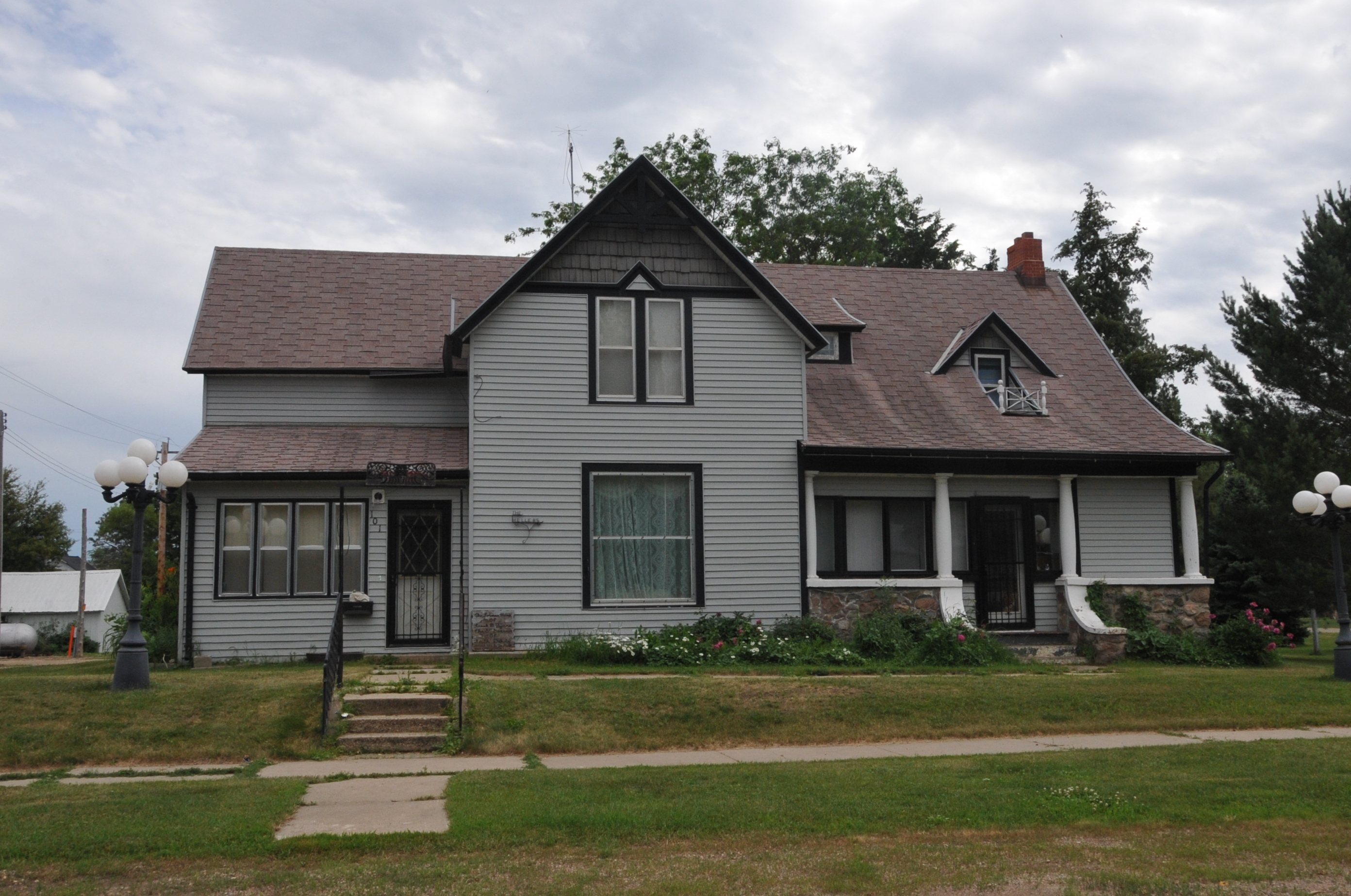 HOUSE WAS HOME TO THE 8TH GOVERNOR OF SOUTH DAKOTA, FRANK M. BYRNE, WHO WAS ELECTED IN 1912; CIRCA 1901 BUNGALOW/CRAFTSMAN &VICTORIAN STICK/EASTLAKE